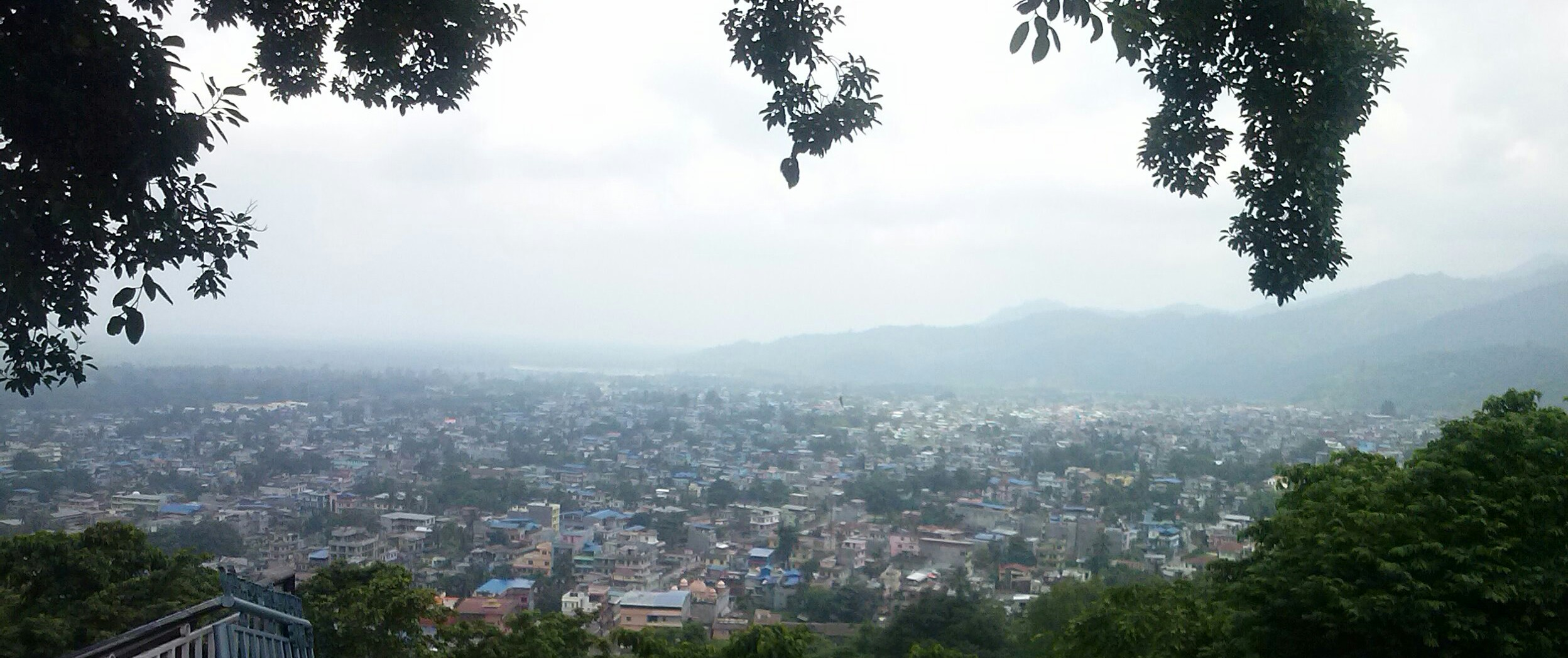 view from bijaypur